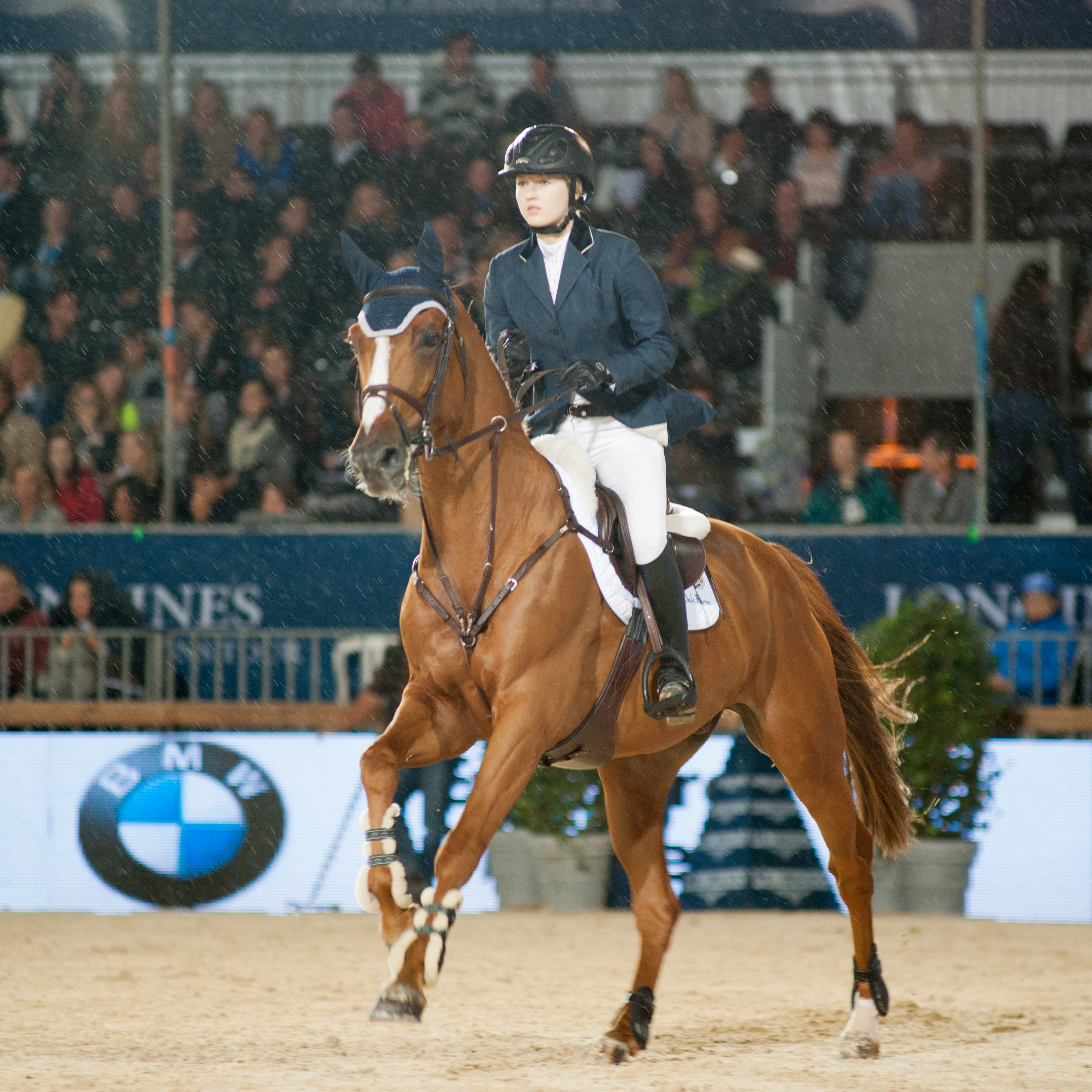 The making of this document was supported by Wikimedia CH. (Submit your project!) For all the files concerned, please see the category Supported by Wikimedia CH. 2013 Longines Global Champions Tour